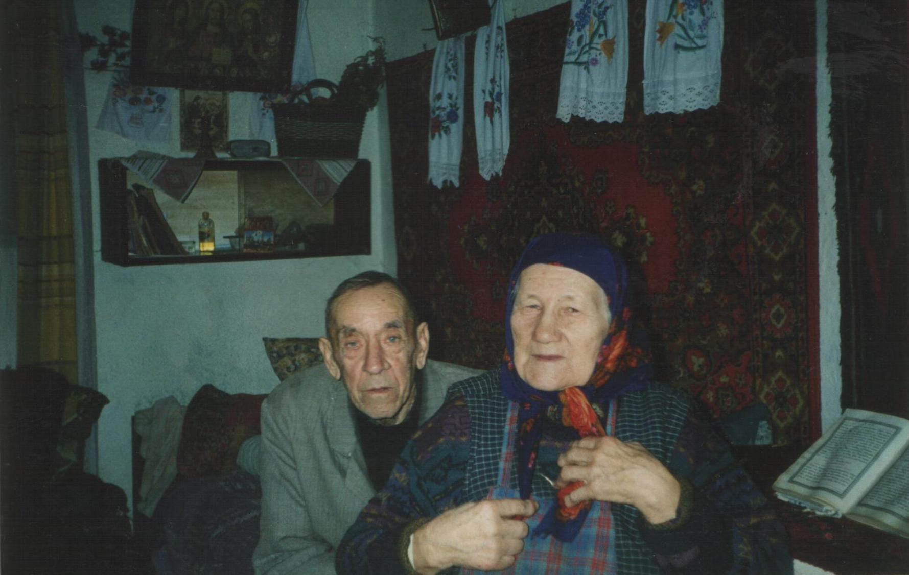 Гоменюк Ганна Михайлівна 1924 р. н.